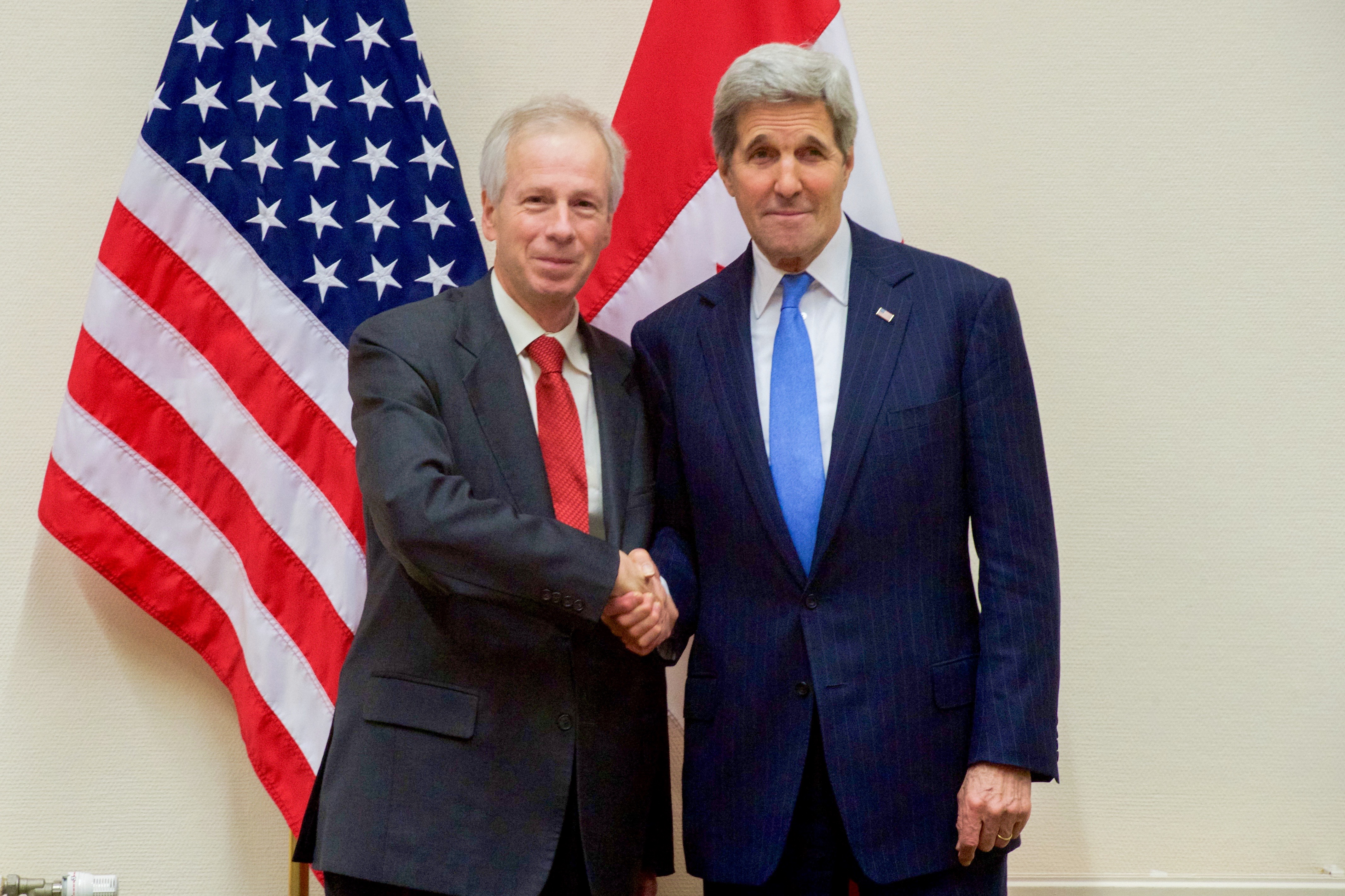 U.S Secretary of State John Kerry shakes hands with Canadian Foreign Minister Stephane Dion on December 1, 2015, at NATO Headquarters in Brussels, Belgium, before a bilateral meeting on the sidelines of a NATO Ministerial meeting. [State Department photo/ Public Domain]